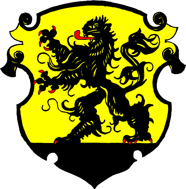 Coat of arms of the city of Pausa/Vogtl., since 2013 Pausa-Mühltroff, new